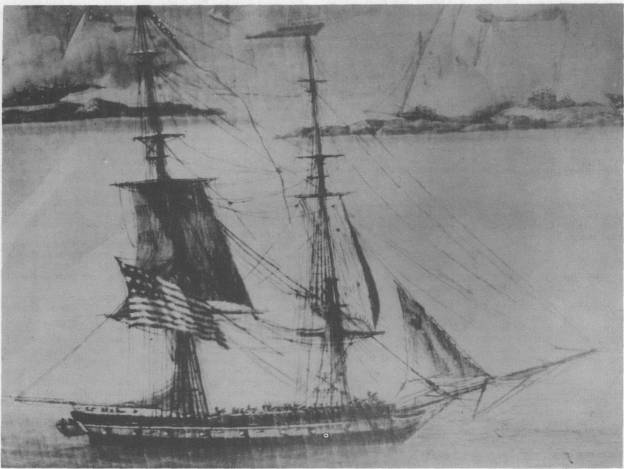 An early artist's rendition of USS Vixen after she was rerigged as a brig in 1804.